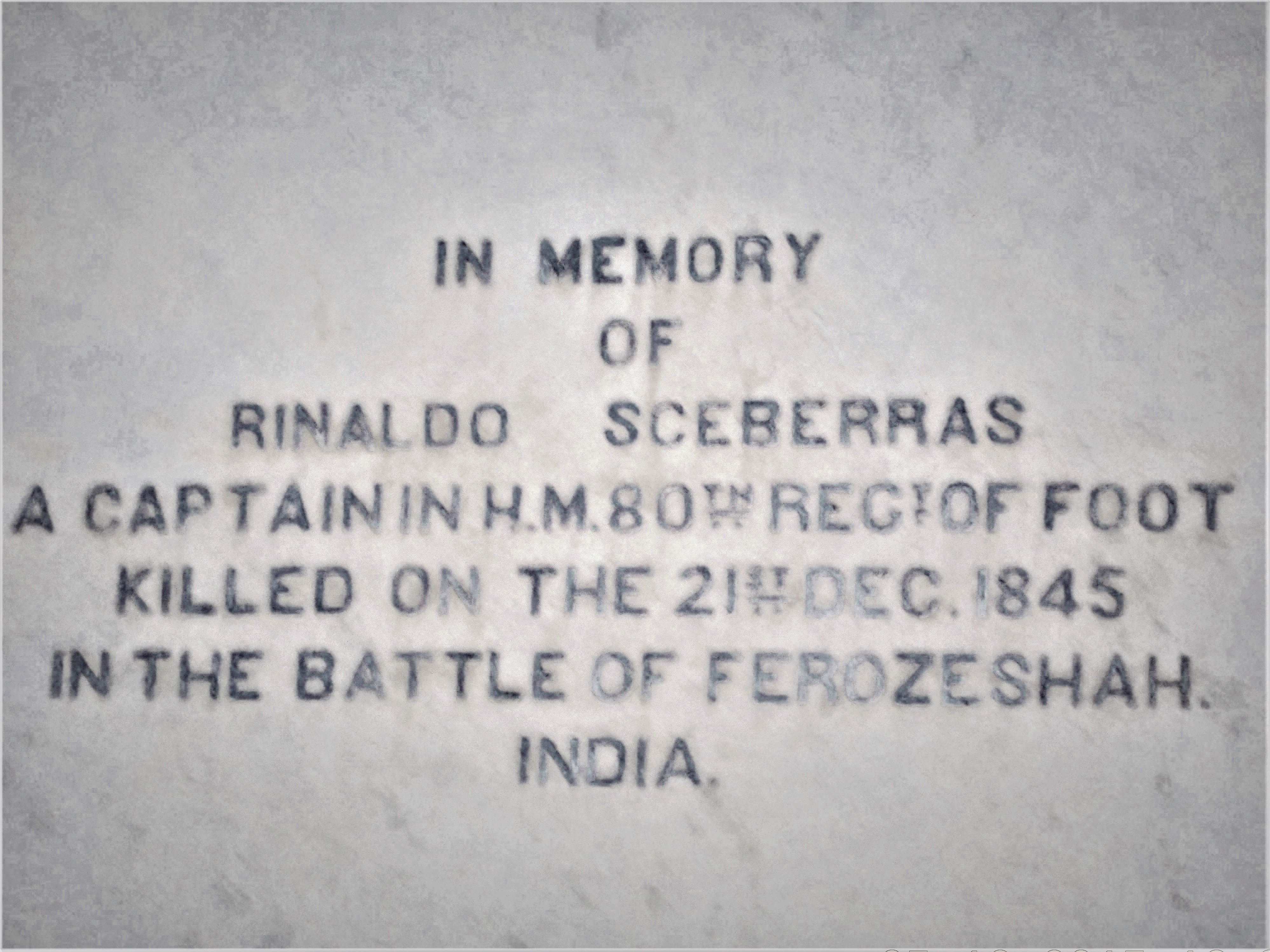 Plaque in Valletta in memory of Maltese Capt. Rinaldo Sceberras killed in India in 1845 AD